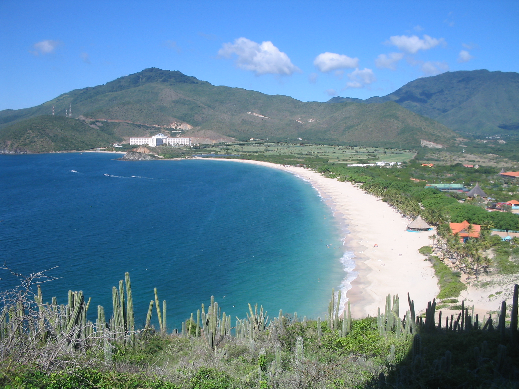 A beach in Margarita Island (Venezuela) called Playa Puerto Cruz. Hotel at the right is the Dunes Beach Resort Hotel. In the background is the Hesperia Isla Bonita Hotel. The picture was taken from the lighthouse.